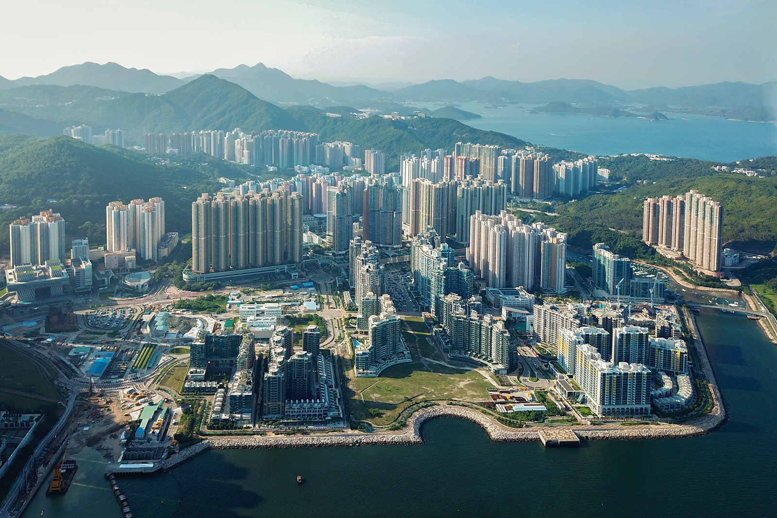 Tseung Kwan O South